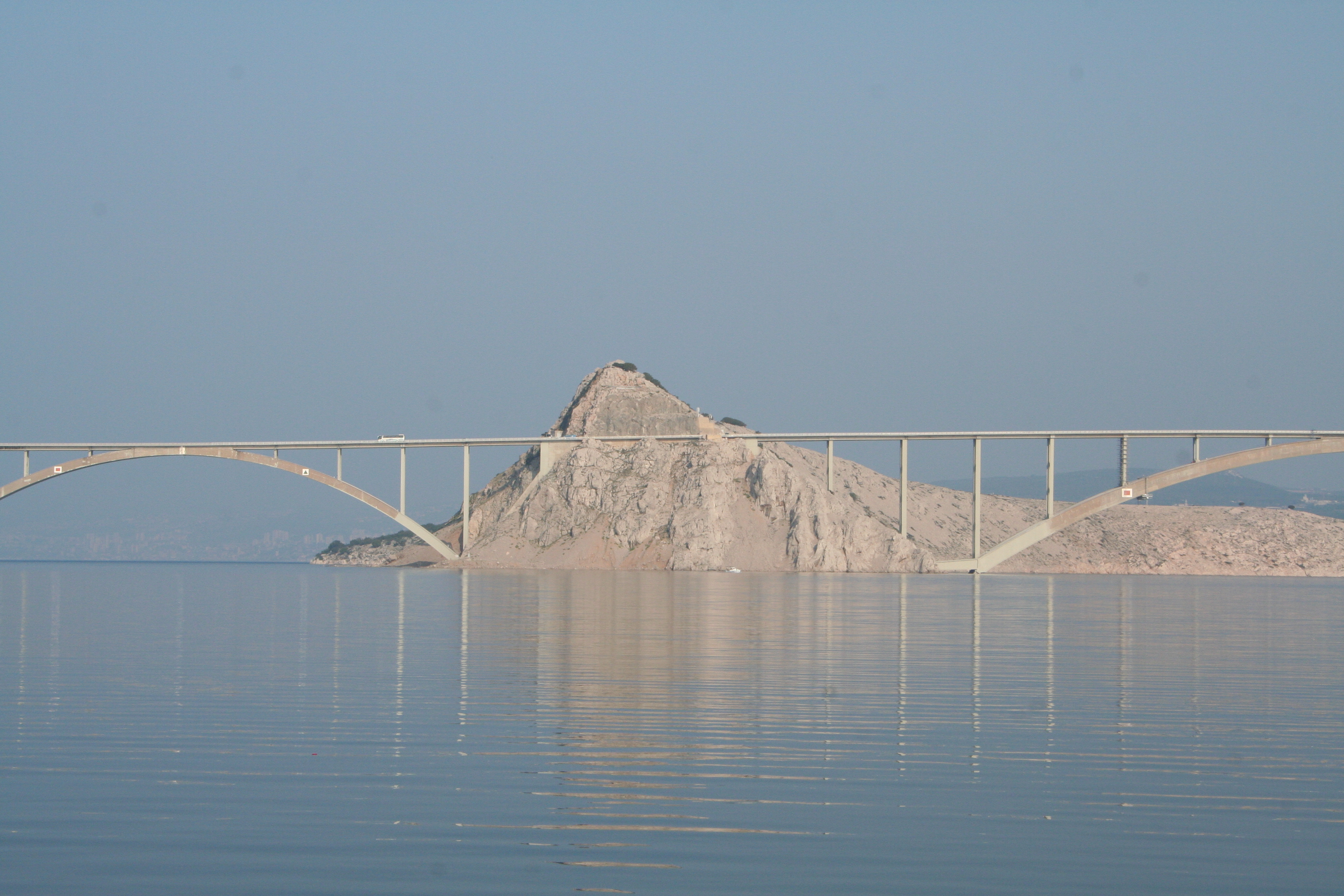 Krk bridge, Croatia